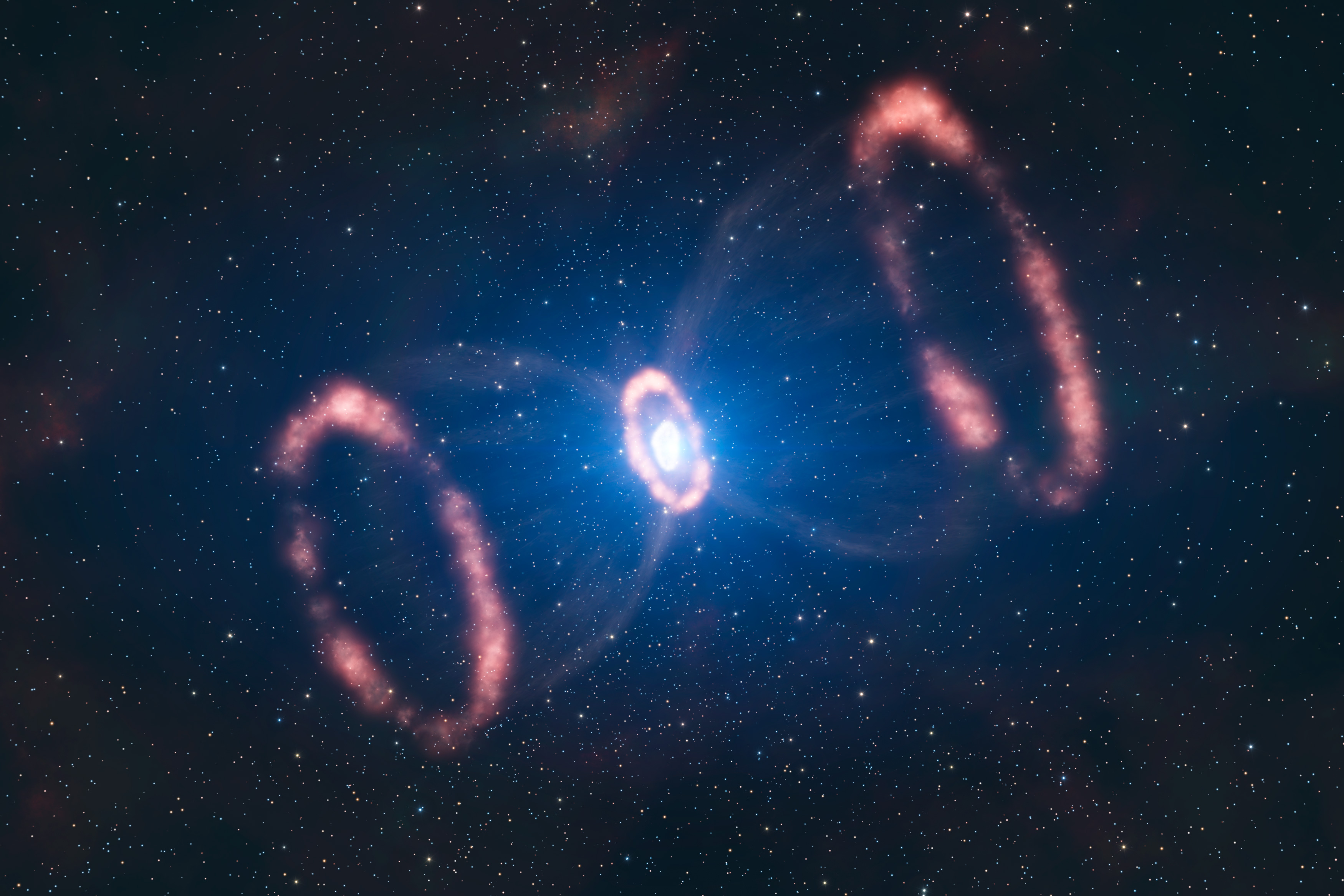 This artist’s impression of the material around a recently exploded star, known as Supernova 1987A (or SN 1987A), is based on observations which have for the first time revealed a three dimensional view of the distribution of the expelled material. The observations were made by astronomers using ESO’s Very Large Telescope. The original blast was not only powerful, according to the new results. It was also more concentrated in one particular direction. This is a strong indication that the supernova must have been very turbulent, supporting the most recent computer models. This image shows the different elements present in SN 1987A: two outer rings, one inner ring and the deformed, innermost expelled material. Just how a supernova explodes is not very well understood, but the way the star exploded is imprinted on this inner material. The astronomers could deduce that this material was not ejected symmetrically in all directions, but rather seems to have had a preferred direction. Besides, this direction is different to what was expected from the position of the rings.